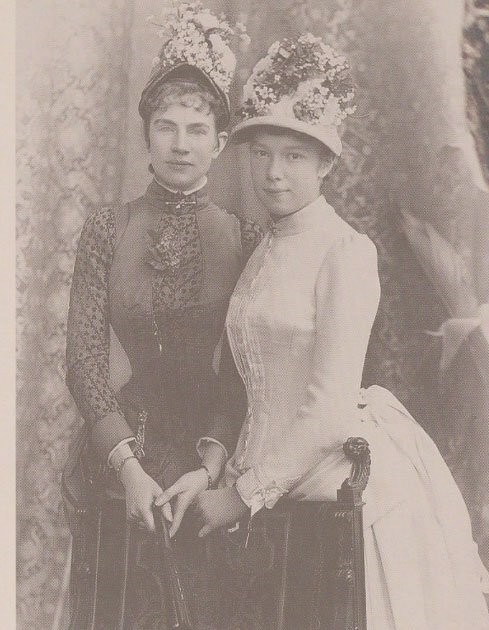 Archuchesse Gisela of Austria (left) with young sister Archduchesse Maria Valeria of Austria, both daughters of Empress Elisabeth and of Emperoro Franz Joseph of Austria-Hungary